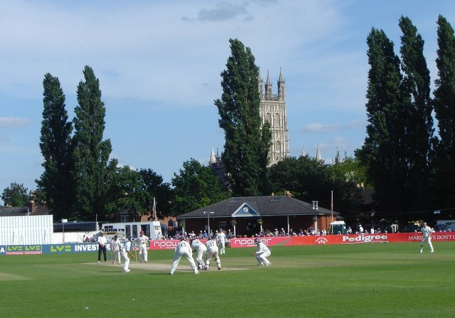 Cricket at Archdeacon Meadow This ground is where the pupils of King's School, Gloucester, play cricket. However, this photo shows a scene from the 2007 annual Gloucester Cricket Festival, when Gloucestershire County Cricket Club take on another first-class county side. In this picture, Gloucestershire are fielding, whilst the Northamptonshire batsman playing the ball is none other than England favourite Monty Panesar. In the background can be seen the glorious tower of Gloucester Cathedral.